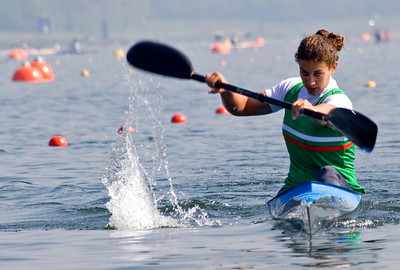 Louisa Sawers in Action at National Regatta in Nottingham